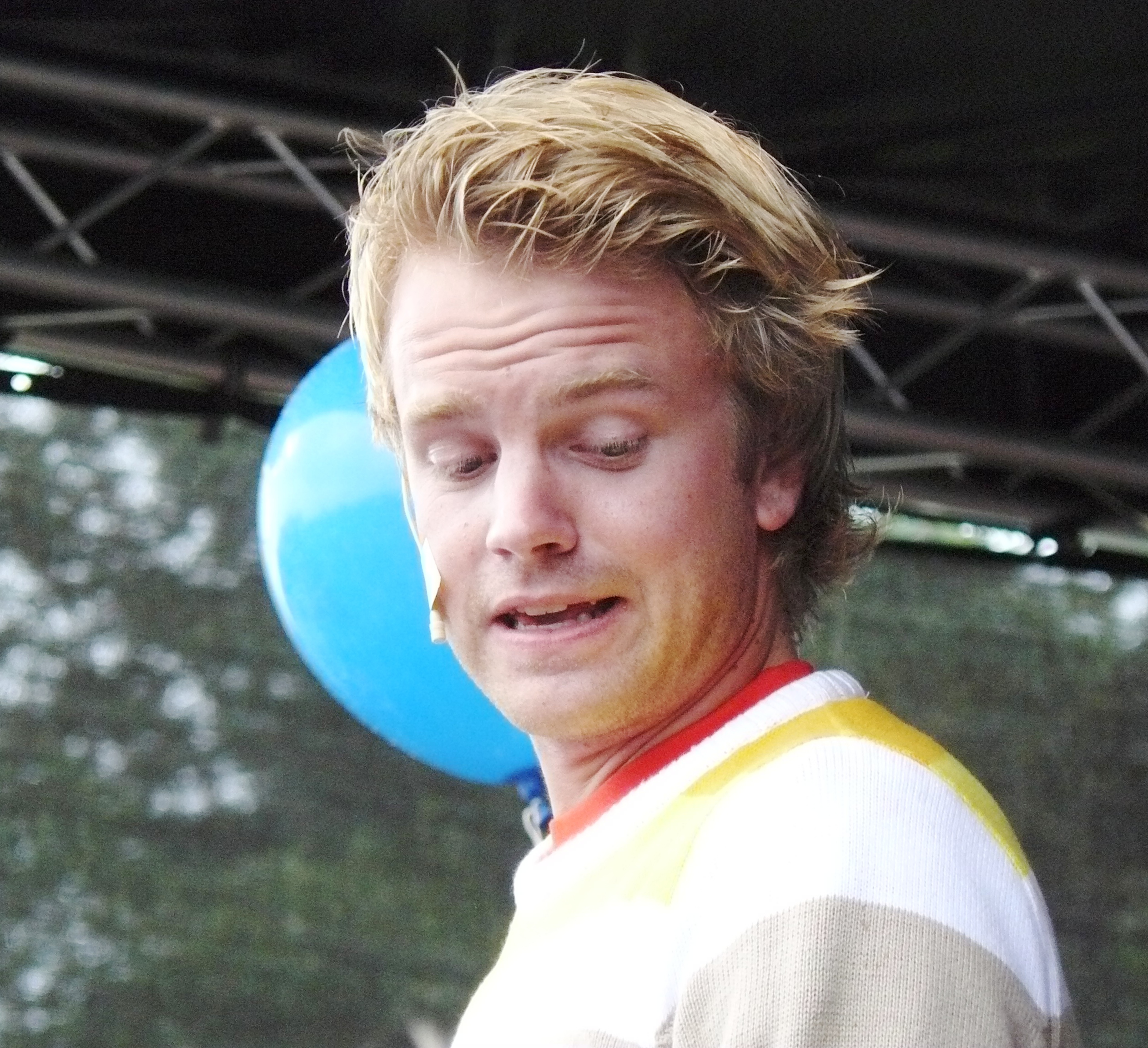 Erik Solbakken, Norwegian TV-celebrity and host of children programs